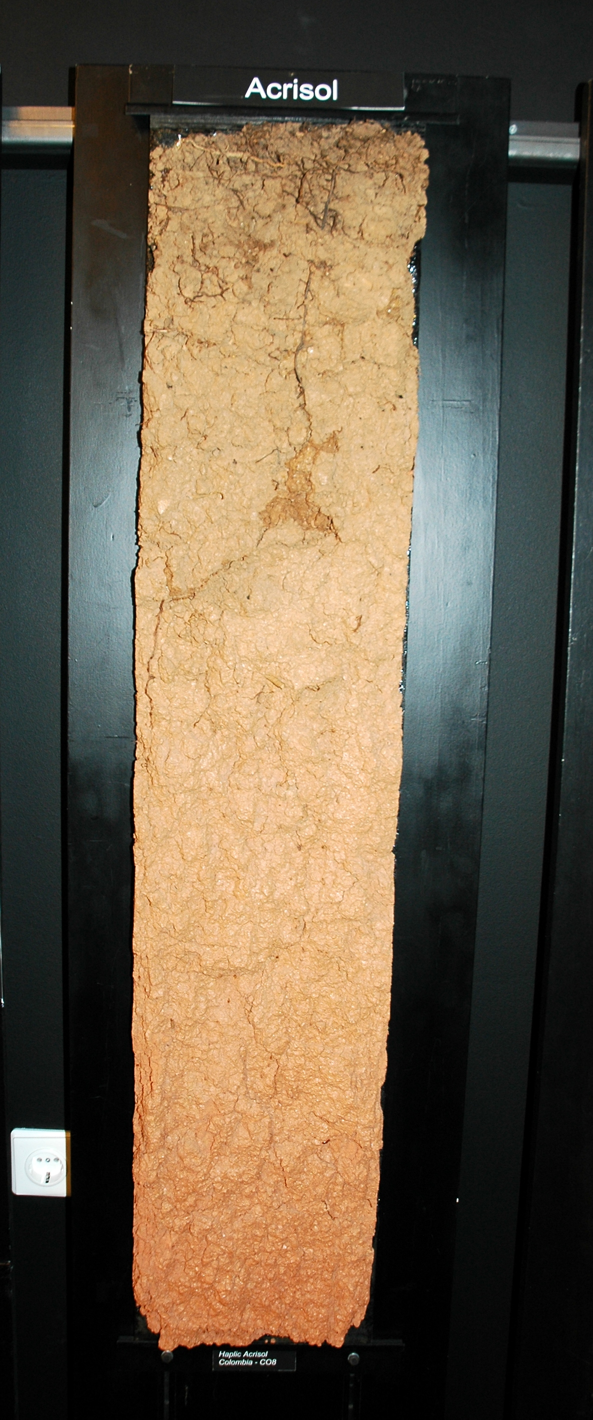 Soil profile of a Haplic Acrisol (from the collection of the World Soil Museum)